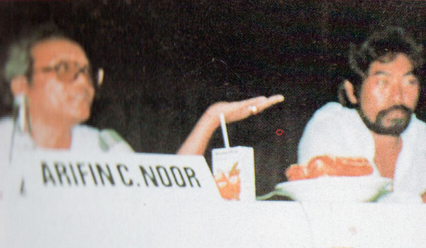 Arifin C Noer during discussion session at the 1982 Indonesian Film Festival in Jakarta